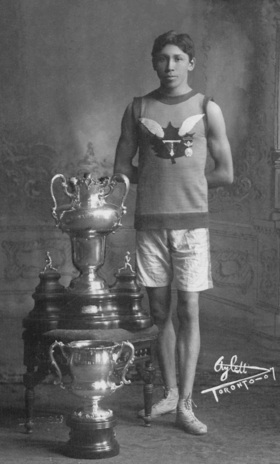 T. Longboat, the Canadian runner. Standing.